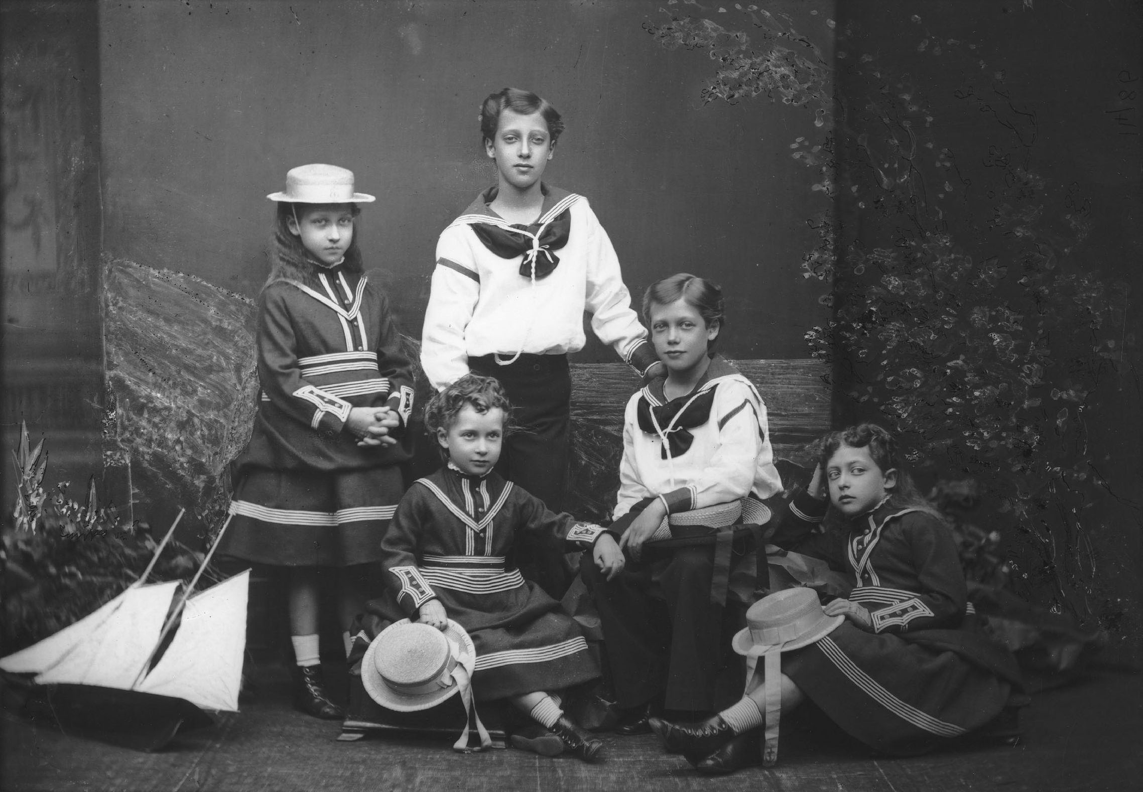 Royal Family group, by Alexander Bassano (died 1913). Sitters Prince Albert Victor, Duke of Clarence and Avondale (1864-1892), Eldest son of Edward VII. Sitter in 91 portraits. King George V (1865-1936), Reigned 1910-36. Sitter associated with 288 portraits. Princess Louise Victoria Alexandra Dagmar, Duchess of Fife (1867-1931), Princess Royal; wife of 6th Earl of Fife, later Duke of Fife; daughter of King Edward VII. Sitter in 59 portraits. Maud Charlotte Mary Victoria, Queen of Norway (1869-1938), Wife of Haakon VII, King of Norway; daughter of King Edward VII. Sitter associated with 57 portraits. Princess Victoria Alexandra Olga Mary of Wales (1868-1935), Fourth child of King Edward VII. Sitter associated with 65 portraits. All images in this batch have been confirmed as author died before 1939 according to the official death date listed by the NPG.